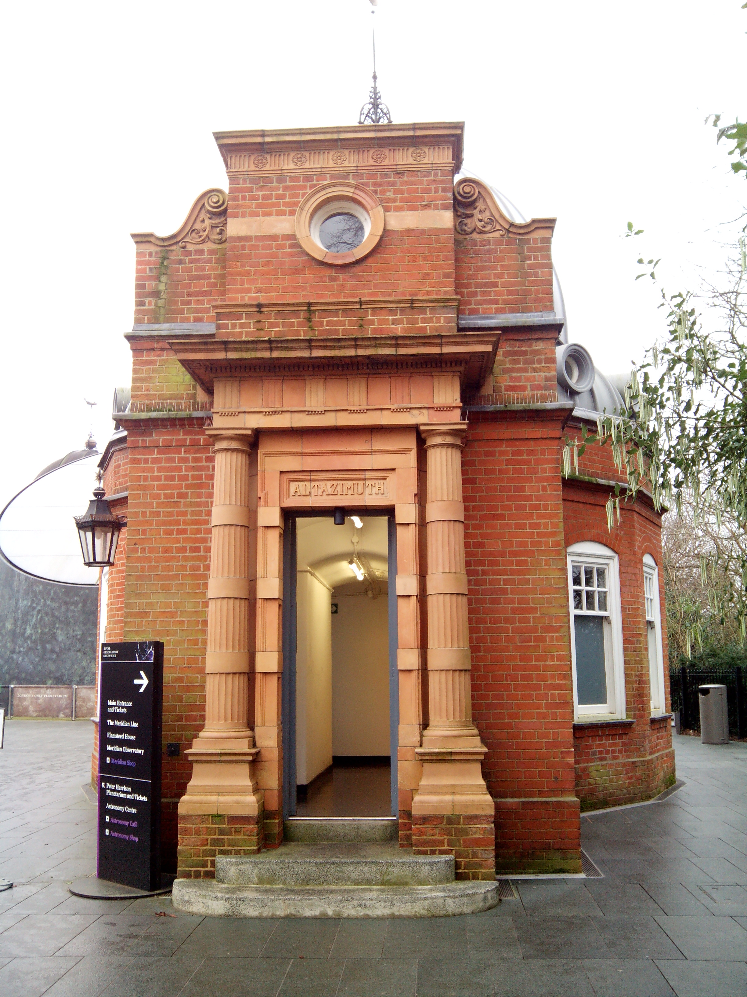 Altazimuth pavilion Greenwich